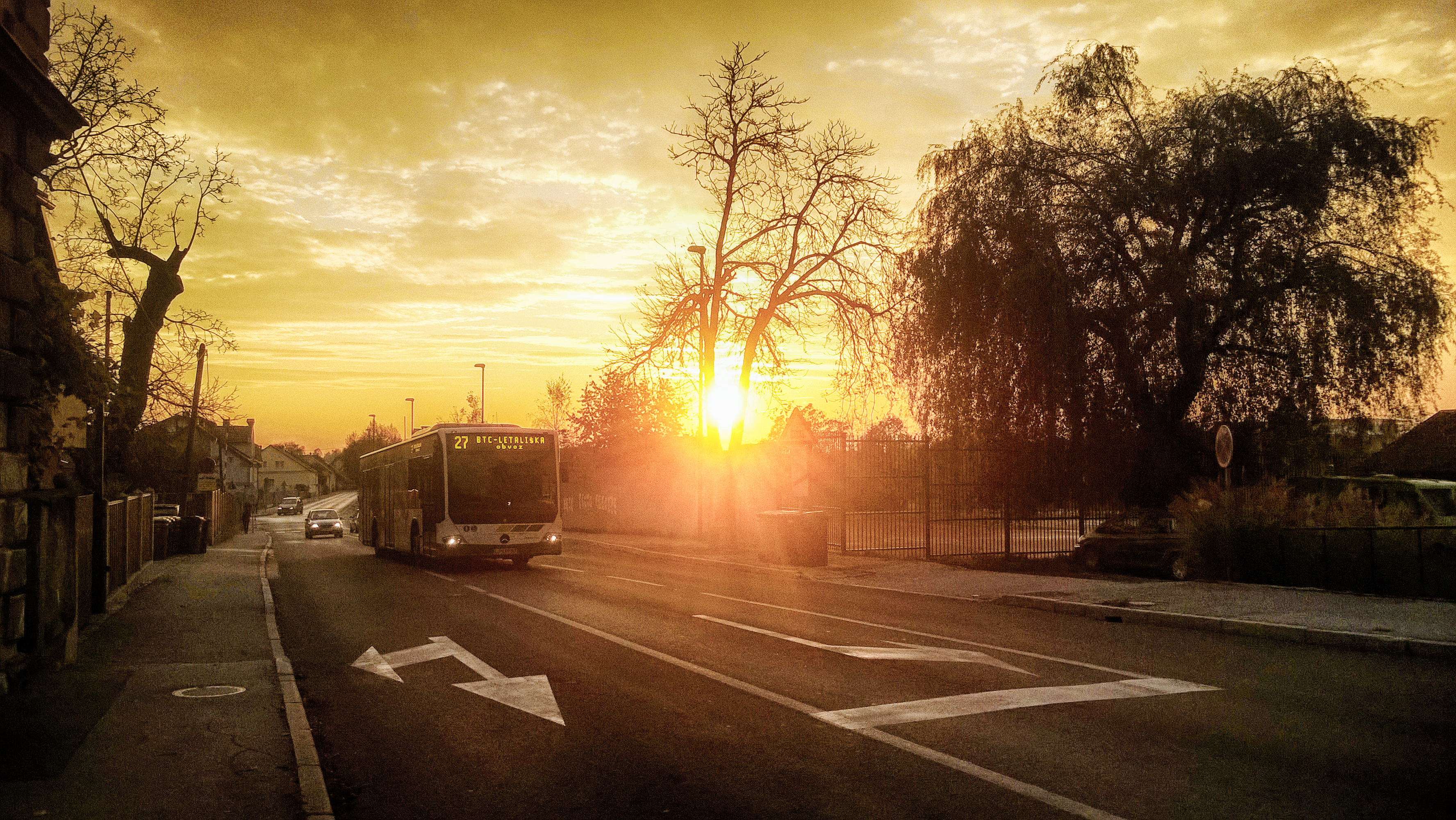 In the lens